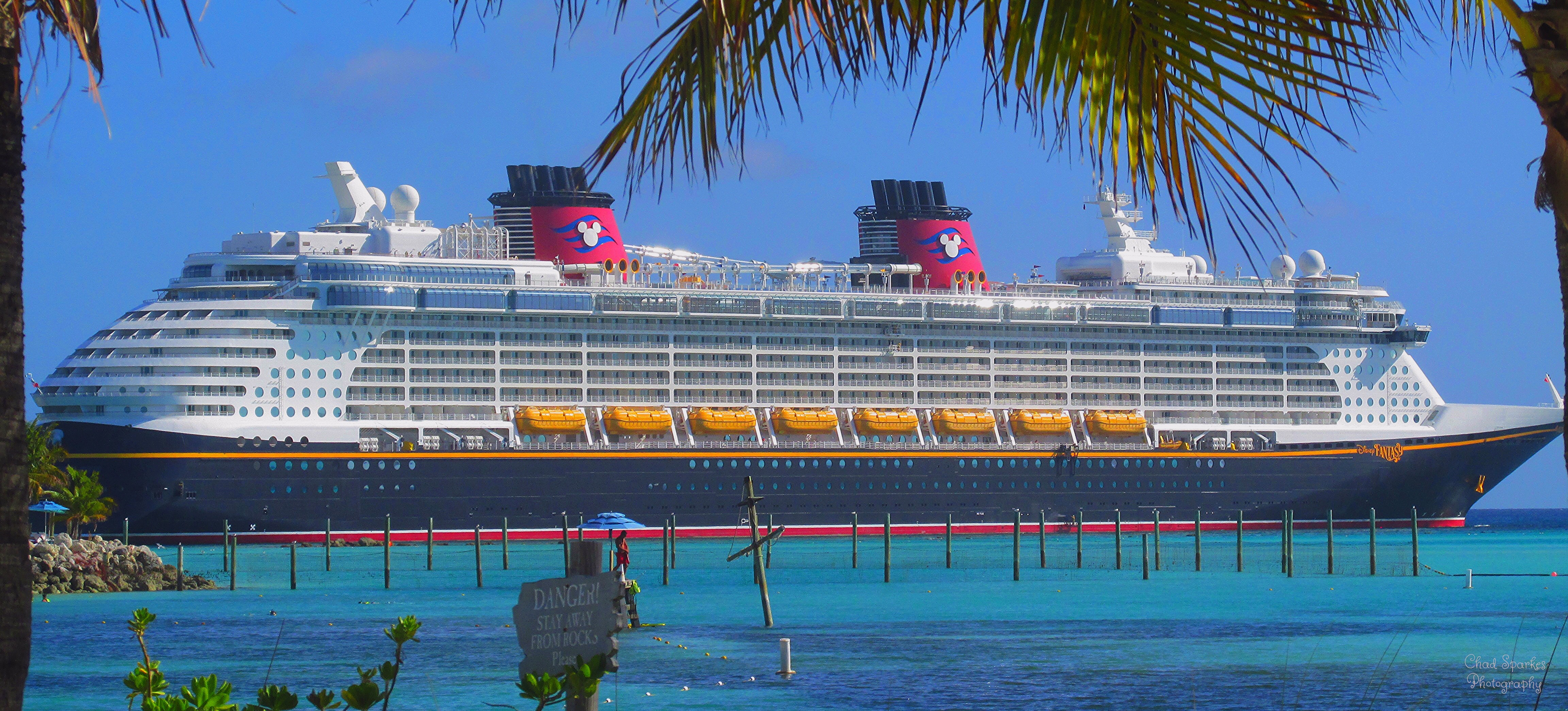 Disney Fantasy cruise ship docked at Disney's private island Castaway Cay in the Bahamas